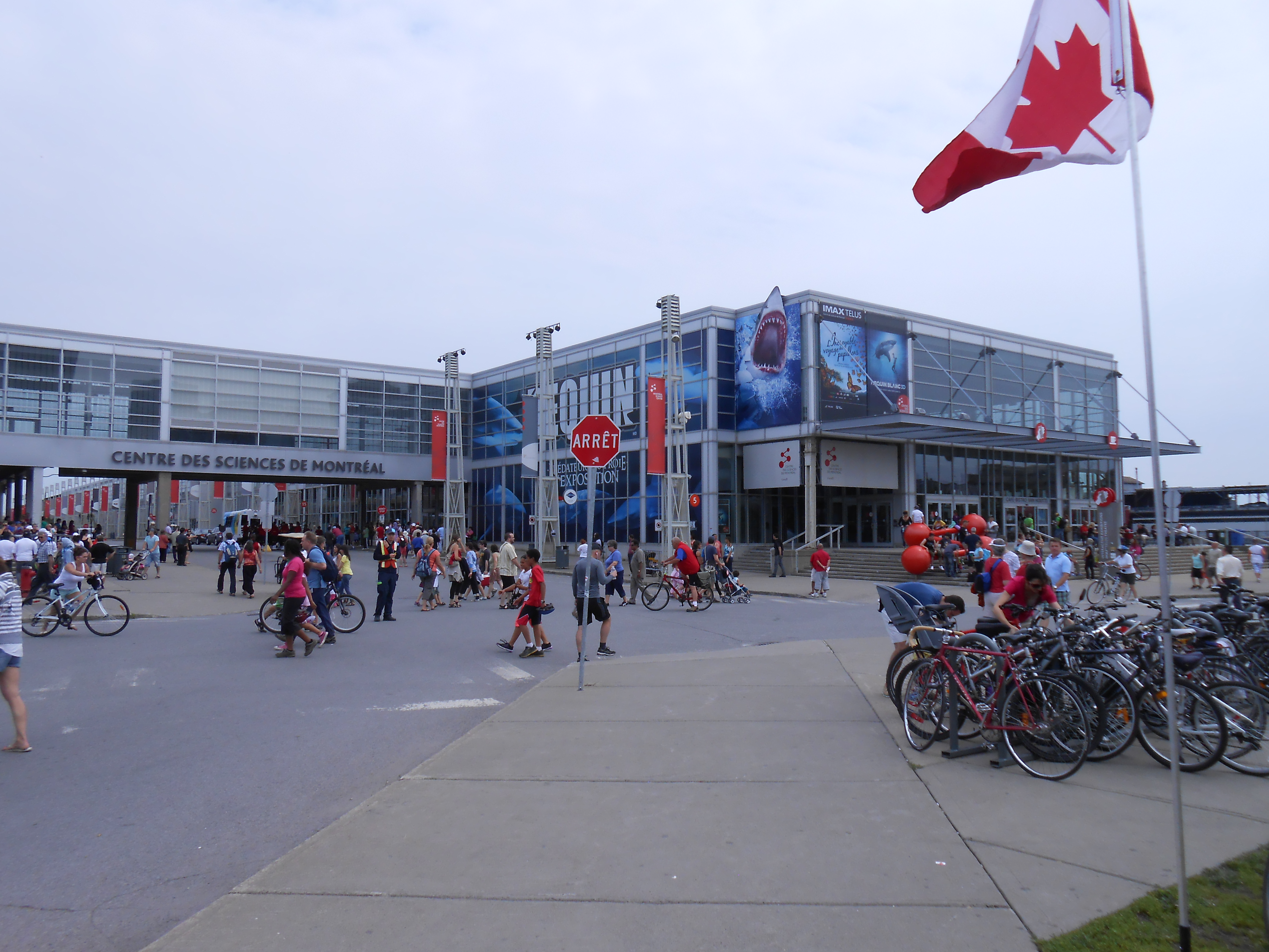 Montreal Science Centre